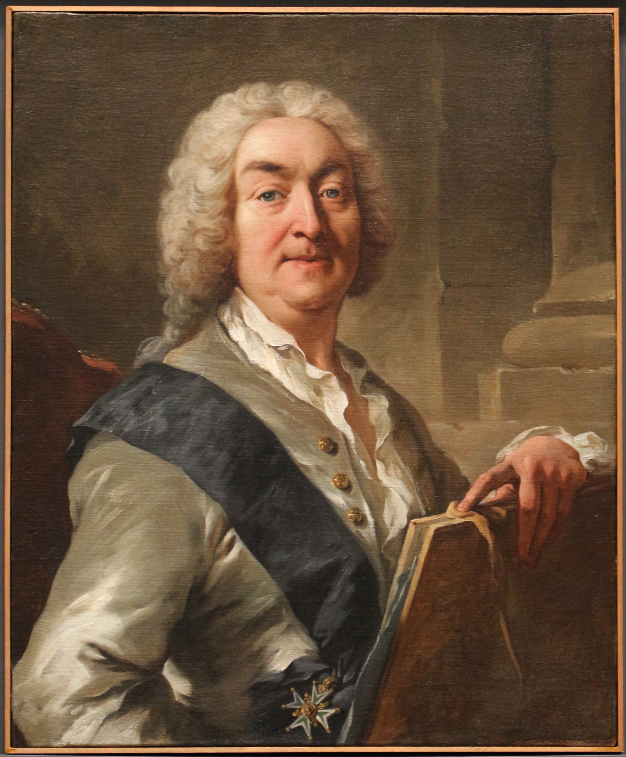 Accademia di San Luca - Gallery